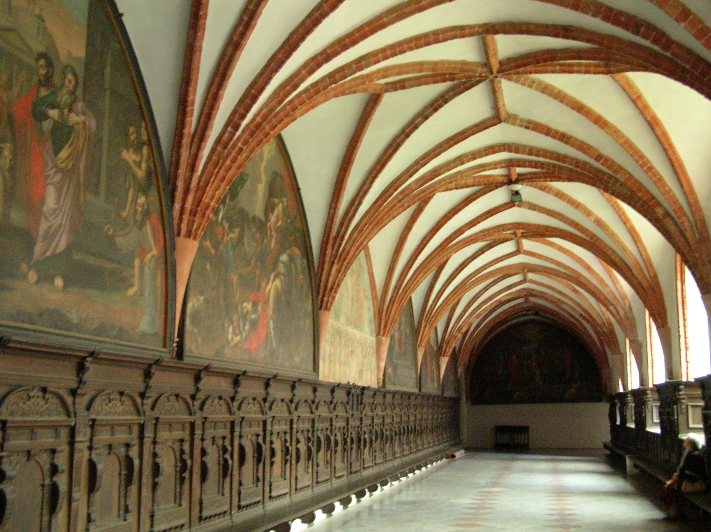 Frescos in courtyard of the Pelplin monastery